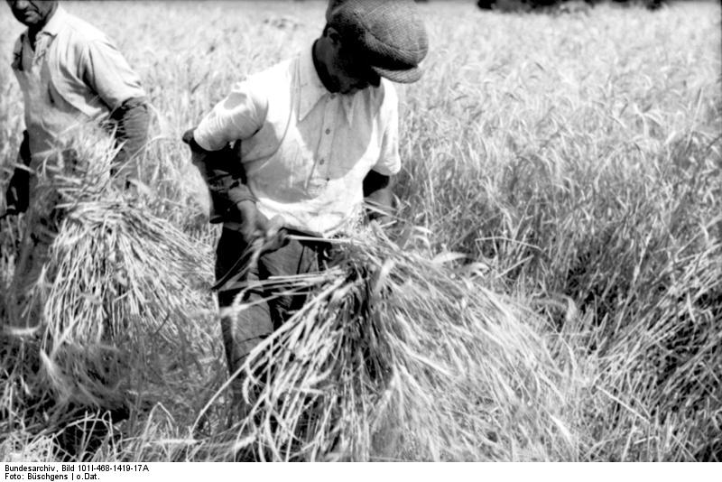 Information added by Wikimedia users.